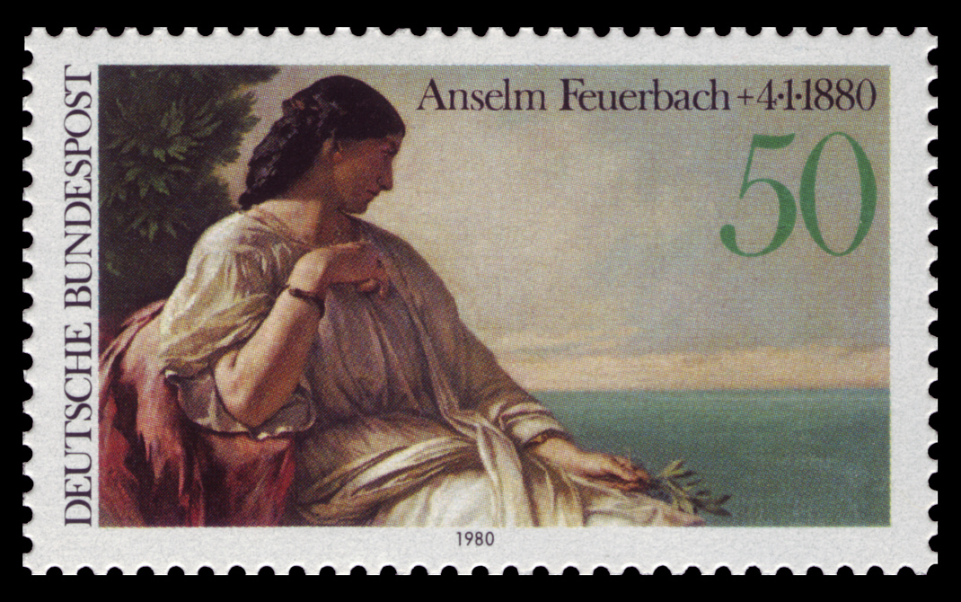 100th day of death of Anselm Feuerbach (1829—1880). Stamp showing part of Iphigenie by Feuerbach. Graphic designer: Schall Ausgabepreis: 50 Pfennig First Day of Issue / Erstausgabetag: 10. Januar 1980 Michel-Katalog-Nr: 1033